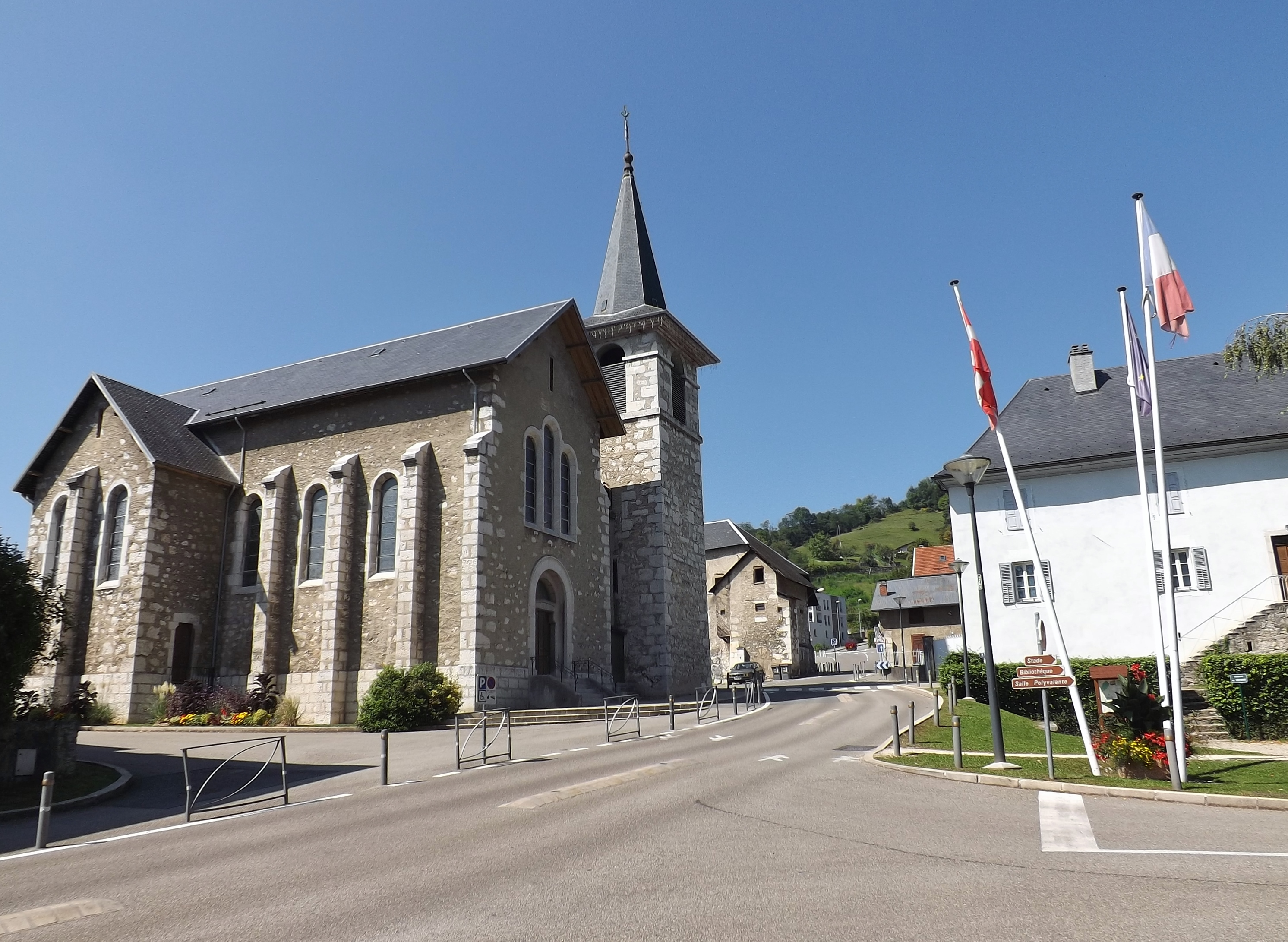 Sight of the commune of Bassens church, near Chambéry, in Savoie, France.